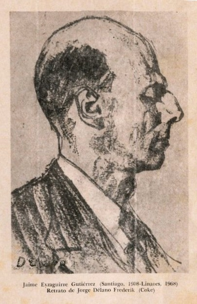 Miguel Gutierrez Jaime Eyzaguirre a Chilean lawyer and historian